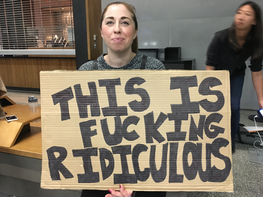 2017/01/28 SFO Airport #NoBan #NoWall #RefugeesWelcome Protest. woman holding handmade cardboard sign reading: "this is fucking ridiculous" referring to the alleged Muslim ban.